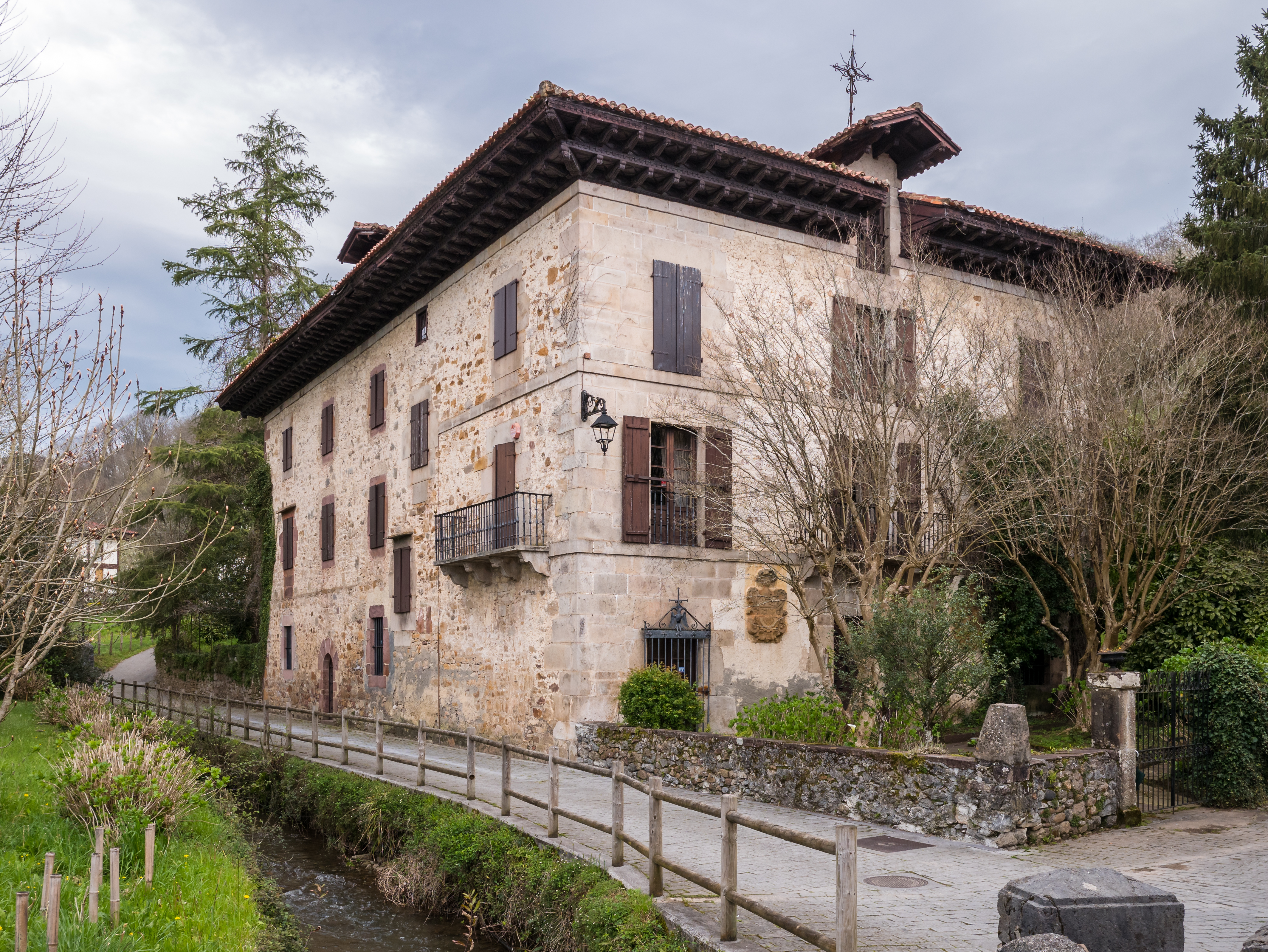 Village house "Itzea Etxea/La Casa de los Baroja" in Bera. Navarre, Spain